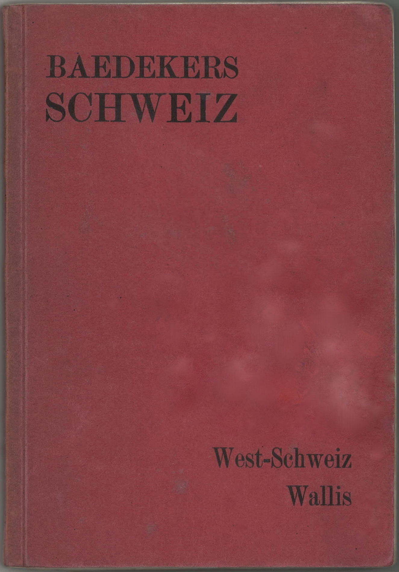 Frontcover of Baedeker D 327, Schweiz 1930, 38th edition in 4 volumes and slipcase, Tome 3